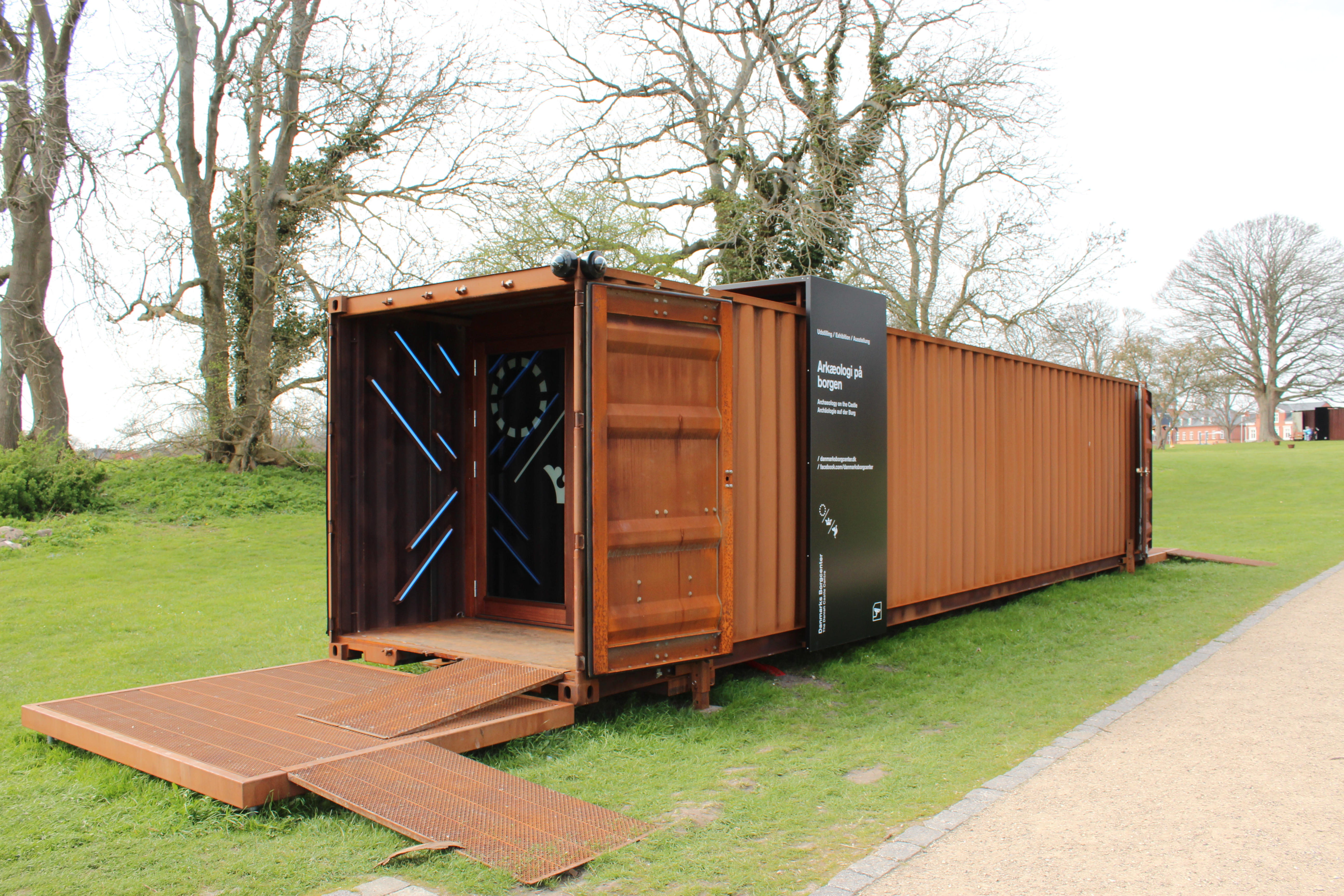 Container with an exhibition of the archeology at Vordingborg. The Exhibition is a part of The Danish Castle Centre.